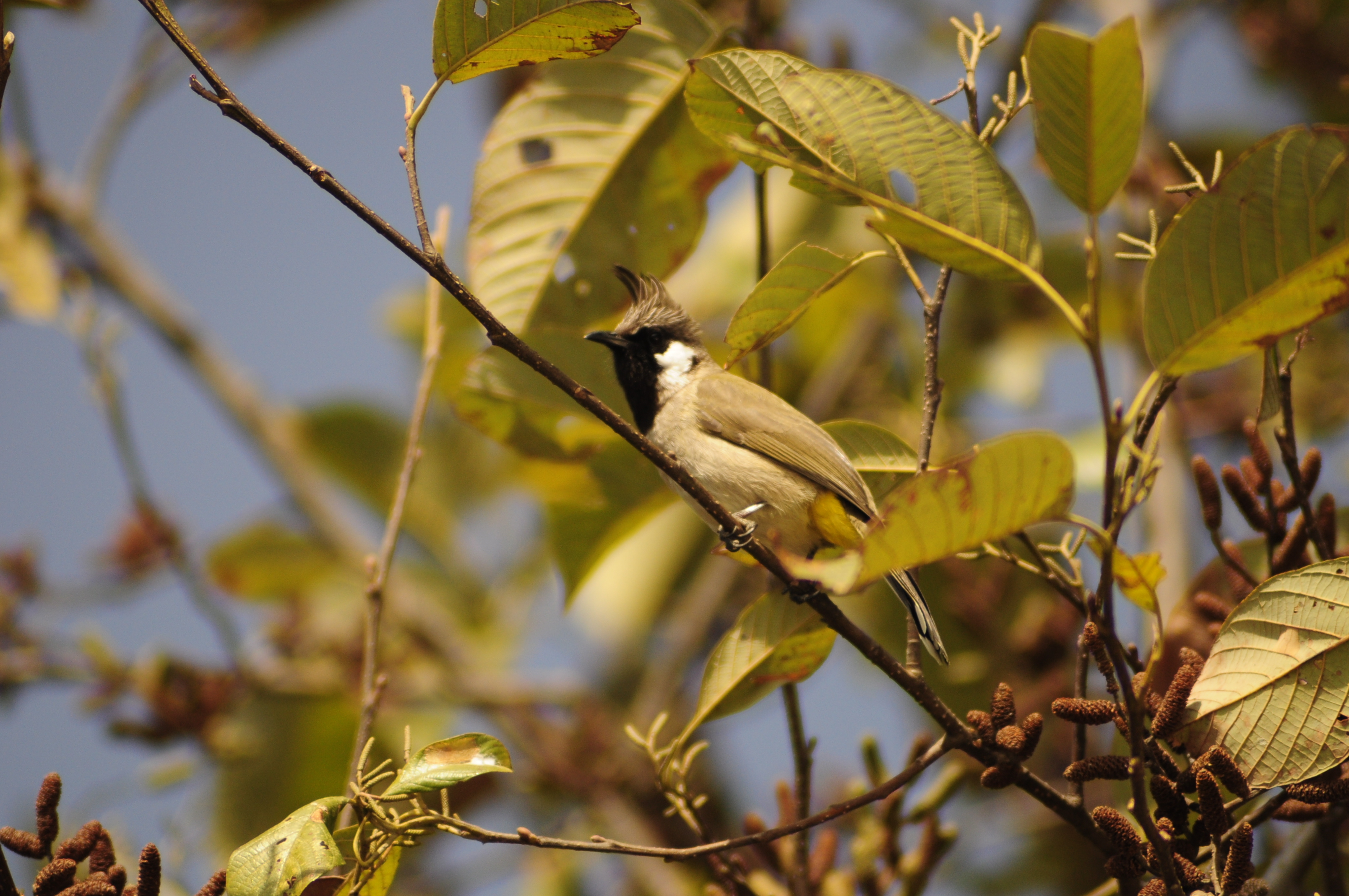 Birds in Sundarijal VDC